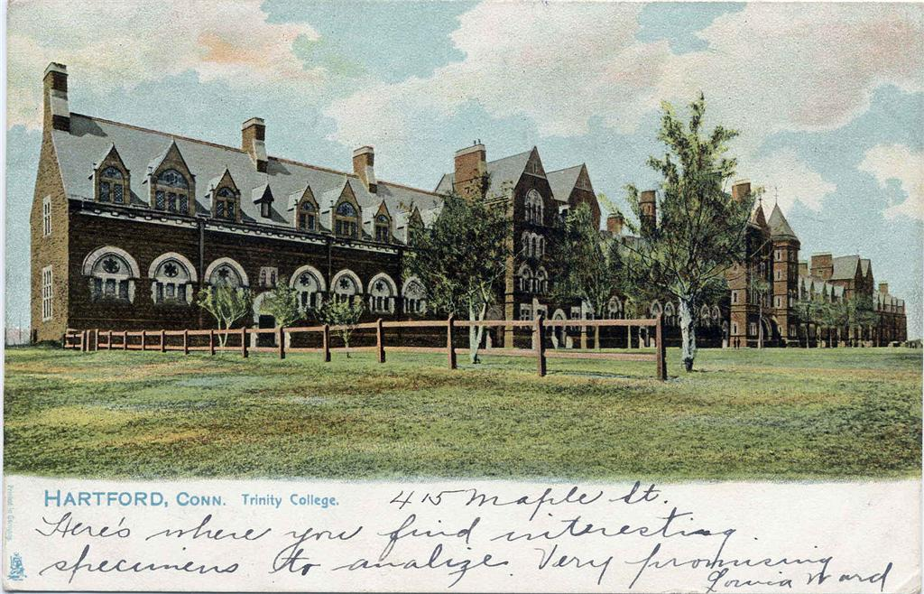 Postcard picture: Trinity College in Hartford. Postmark: October 30, 1905, Springfield, Massachusetts. Message: "415 Maple St. Here's where you find interesting specimens to analize [sic]. Very promising" [signed] Lavinia[?] Ward." Reverse: Addressed to Miss Irene Jackson, Belchertown, Mass. [no street address] Description: "UNDIVIDED BACK TUCK POST CARD POSTCARD SERIES NO. 1077, "HARTFORD, CONN." MAGNIFICENT VIEW OF TRINITY COLLEGE IN HARTFORD, CONNECTICUT. CANCELLED 10-30-1905"